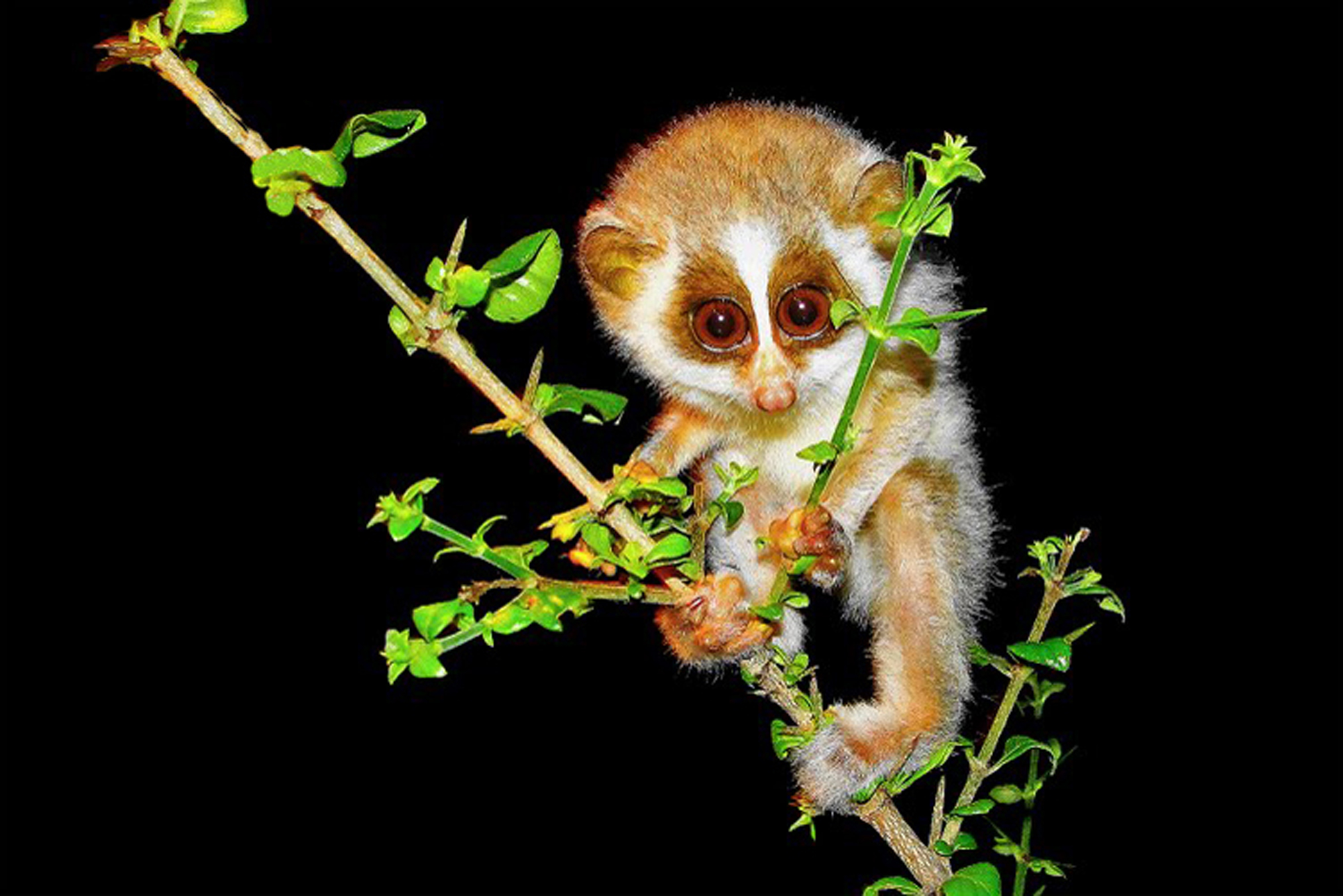 “Snapped in this photograph is an infant (4 months approx.) Slender loris Loris lydekkerianus lydekkerianus perching atop a lantana shrub during our field survey of this highly elusive and shy nocturnal species. This ‘Endangered’ arboreal species now exist in highly fragmented landscapes along the Eastern ghats range of India threatened primarily, by sheer ignorance of their existence, inefficient management of their habitat and extensive loss of their habitats. The behavior illustrated in this snap is termed,‘parking’ wherein Infants lorises are stationed, sometimes communally, by mother at cryptic locations termed, ‘parking spots’ as they depart to catch insect preys for their hungry offsprings.”